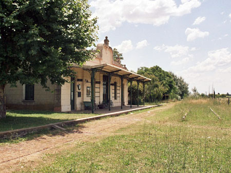 Plomer Train Station